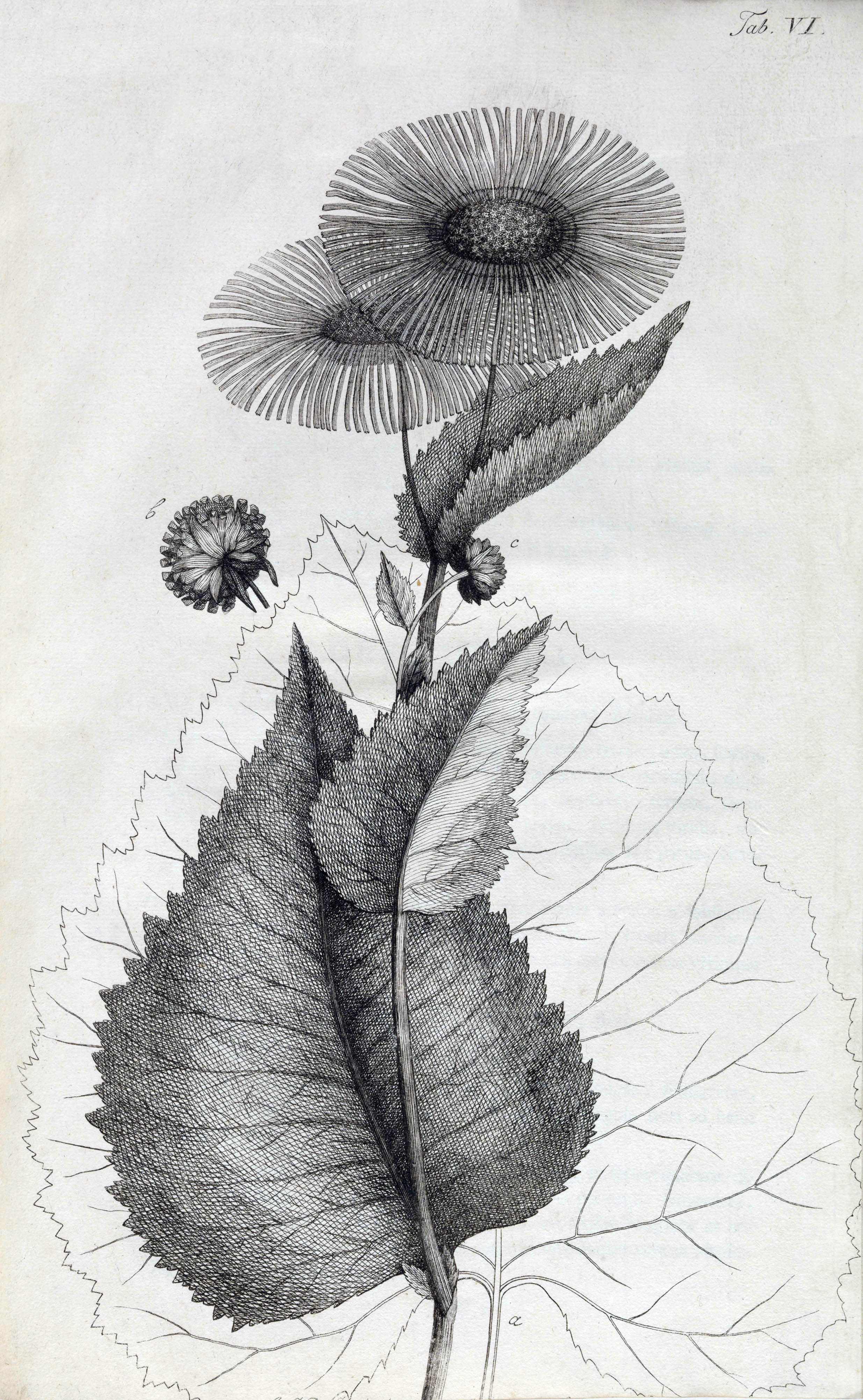 Illustration of Buphthalmum speciosum Schreb. = Telekia speciosa (Schreb.) Baumg.